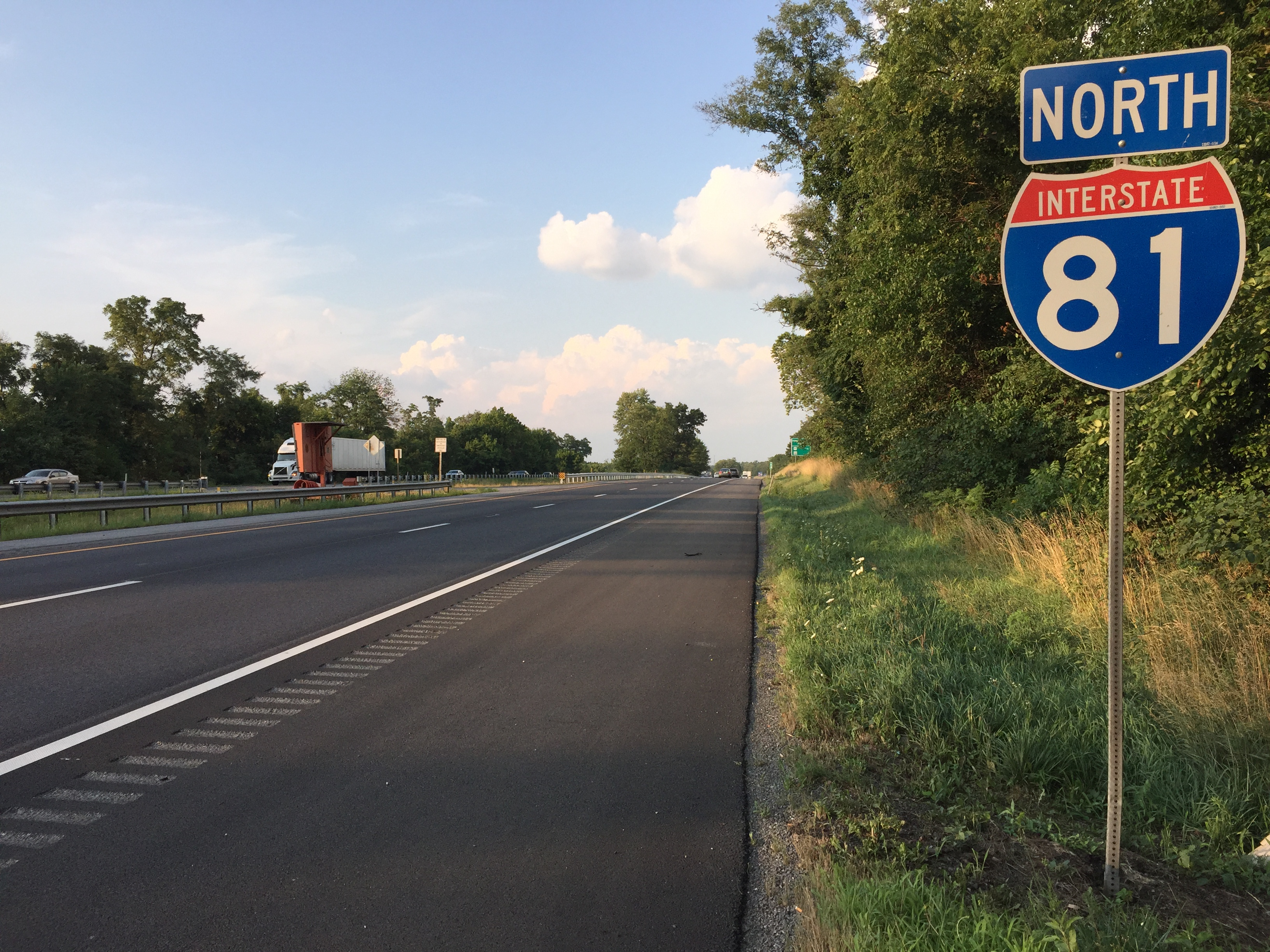 View north along Interstate 81 just north of Exit 5 (Halfway Boulevard) just southwest of Hagerstown in Washington County, Maryland